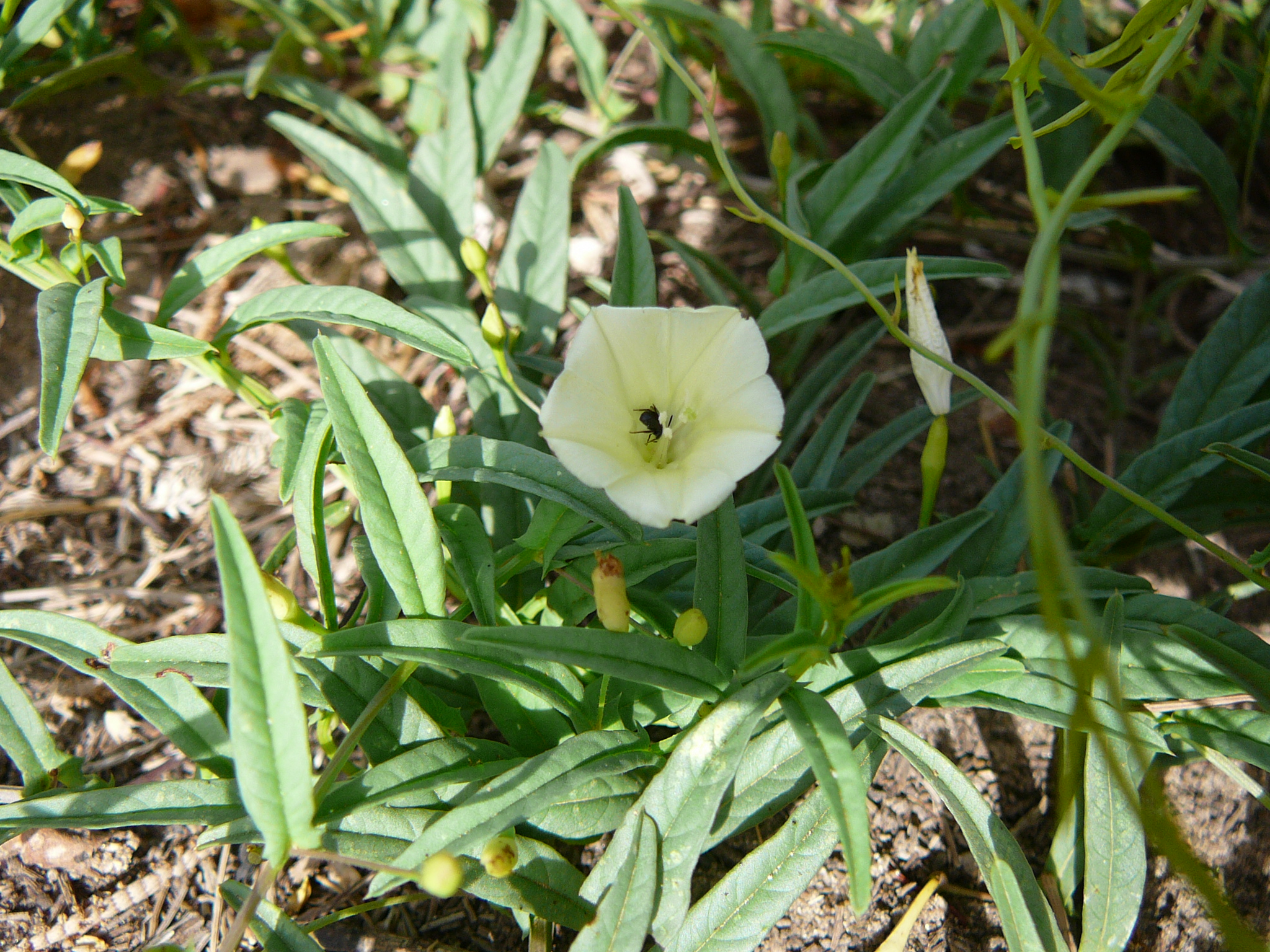 Beach morning glory